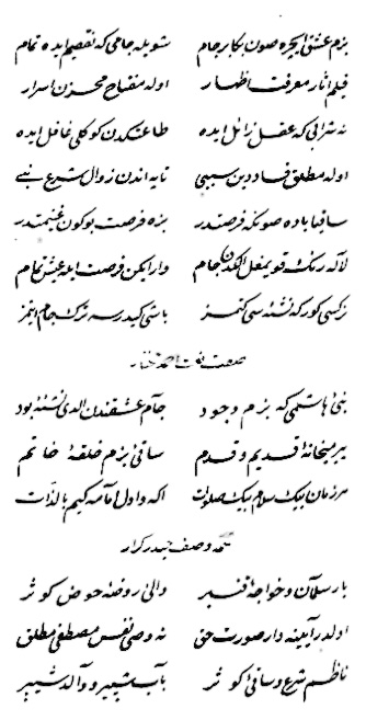 Bengu Bade